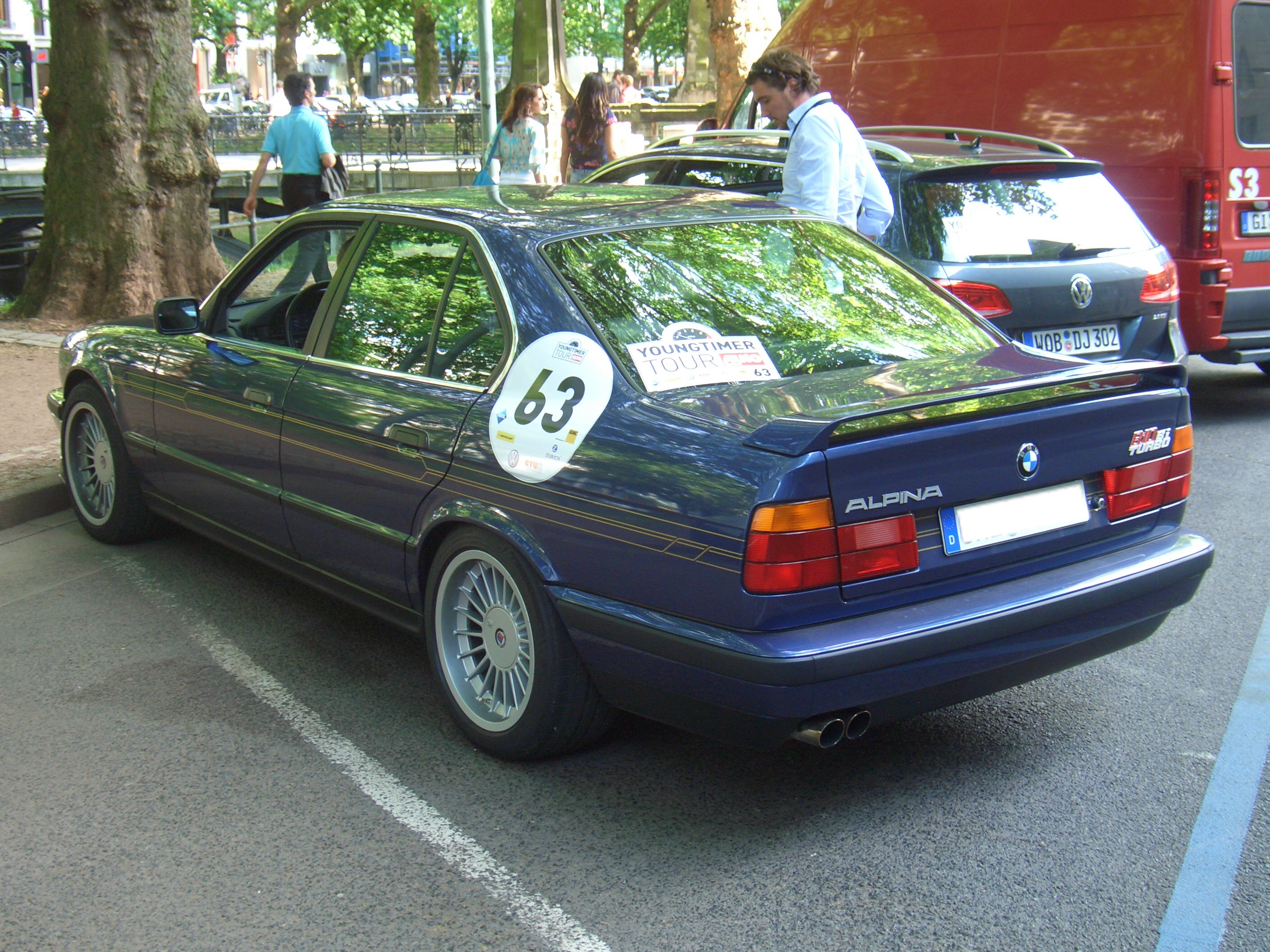 Alpina B10 Biturbo (based on BMW 5 series E34), 1989-1994, seen at AUTO ZEITUNG Youngtimer Tour 2011, finish at Königsallee, Düsseldorf